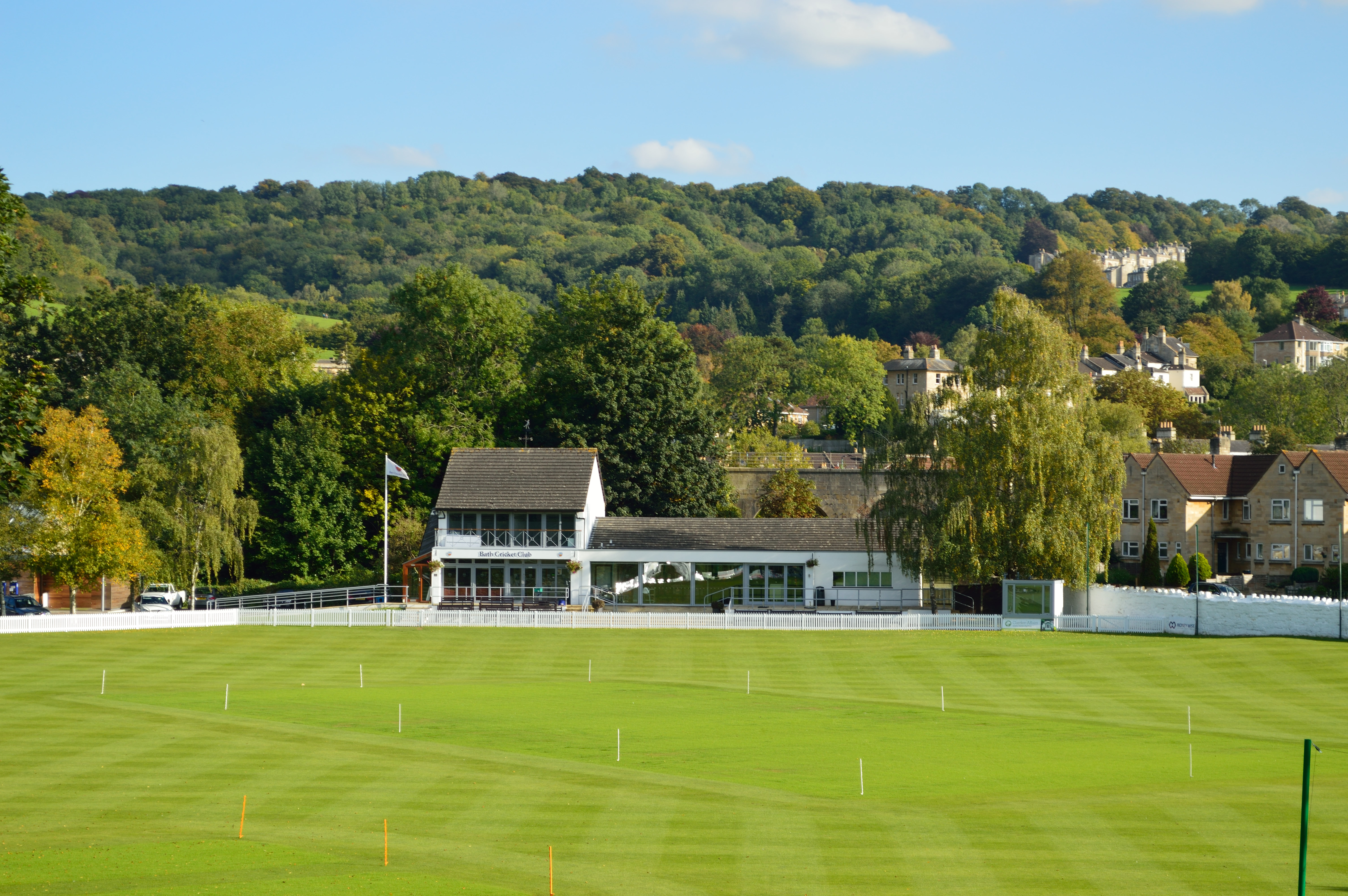 Bath Cricket Club pavilion with hills behind on the Bath skyline.